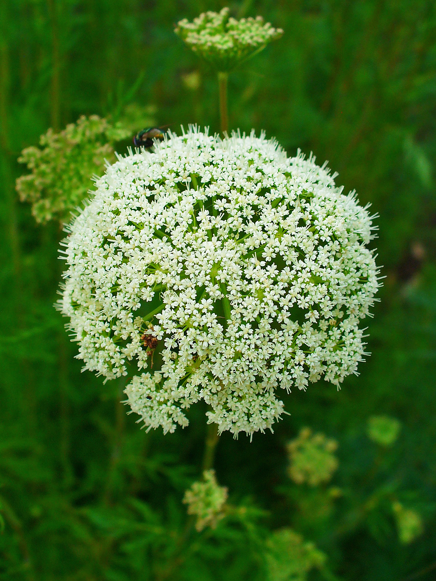 Cnidium dubium, Apiaceae, inflorescence; Botanical Garden KIT, Karlsruhe, Germany.